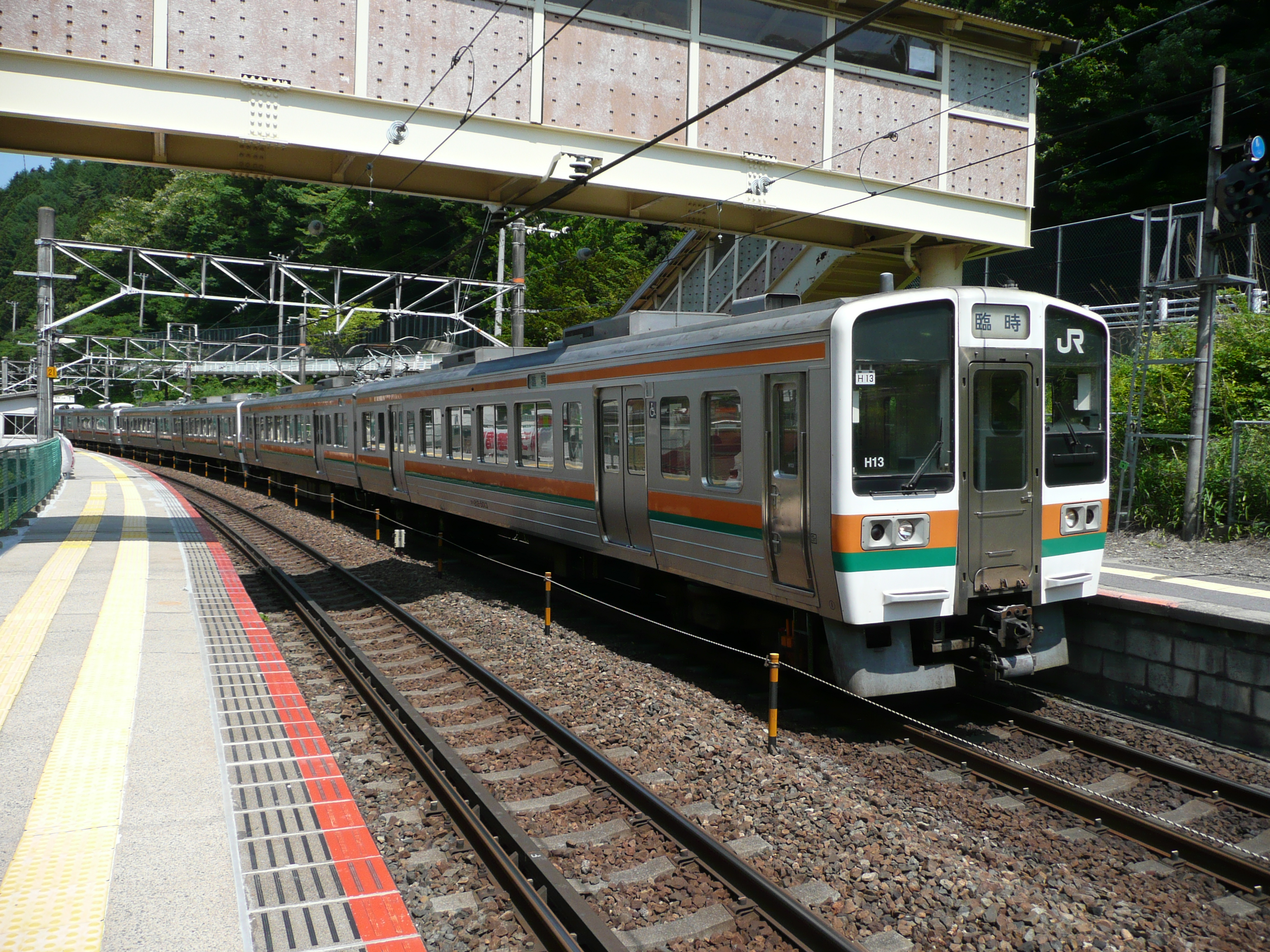 木曽平沢駅に停車中の列車